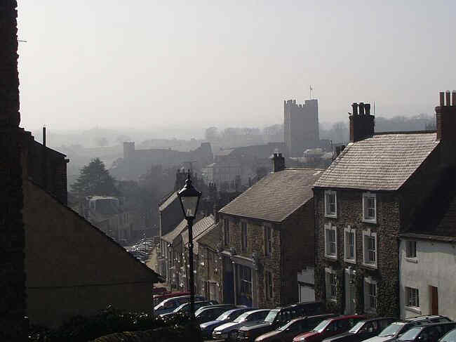 Richmond, North Yorkshire, England, seen from the top of Frenchgate. Photo by User:Ian Broadhurst.